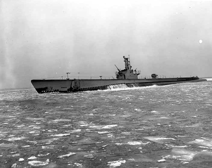 USS Loggerhead (SS-374) underway during sea trials on Lake Michigan, winter 1944. US Navy photo originally from , now located at